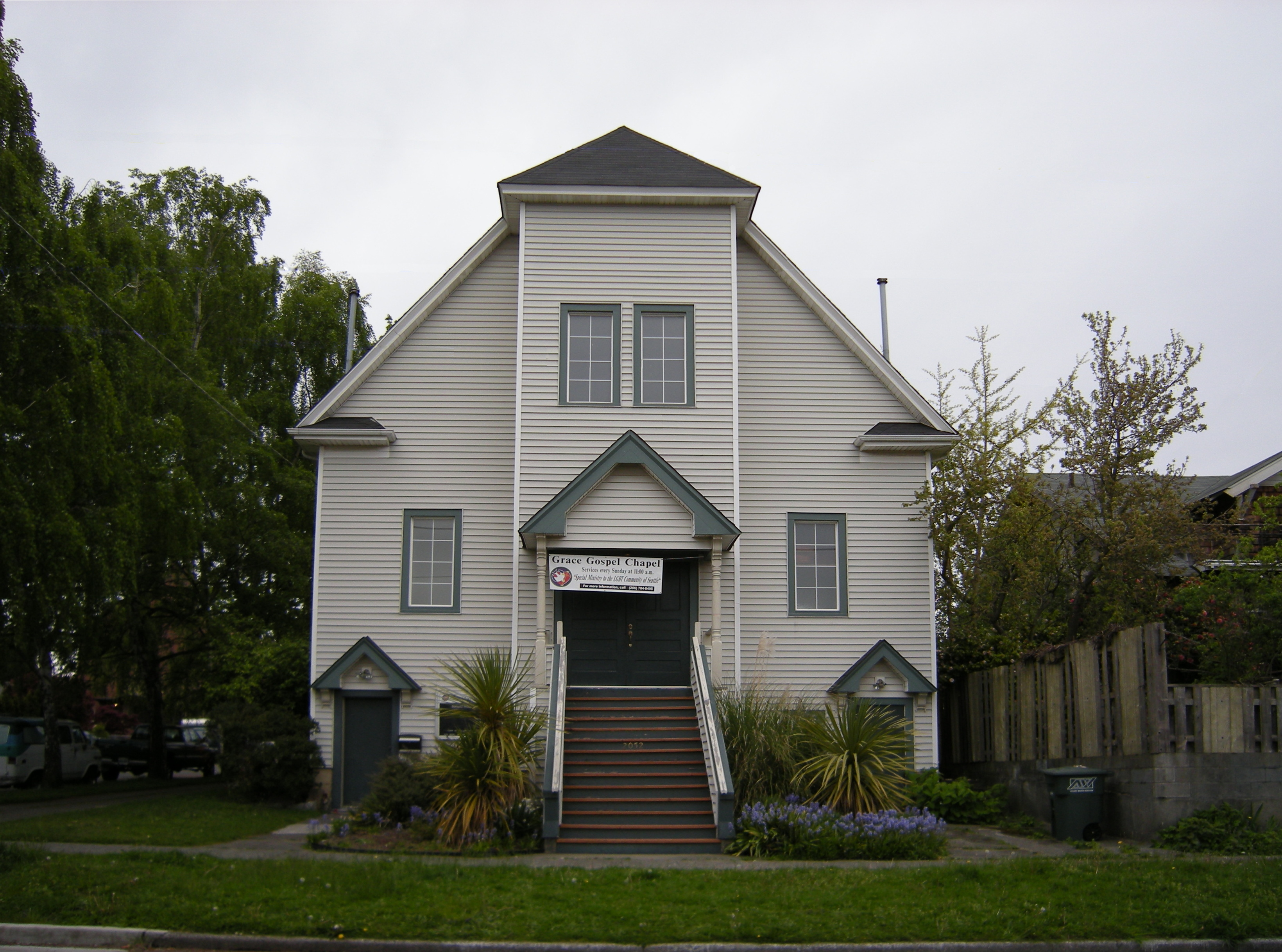 Grace Gospel Chapel, 2052 NW 64th St, Ballard, Seattle, Washington. The congregation claims to be “The oldest independent, evangelical LGBT Church in the U.S.” This is a retouched picture, which means that it has been digitally altered from its original version. Modifications: power lines removed, perspective enhanced. The original can be viewed here: Seattle - Grace Gospel Chapel 01.jpg. Modifications made by PawełMM.